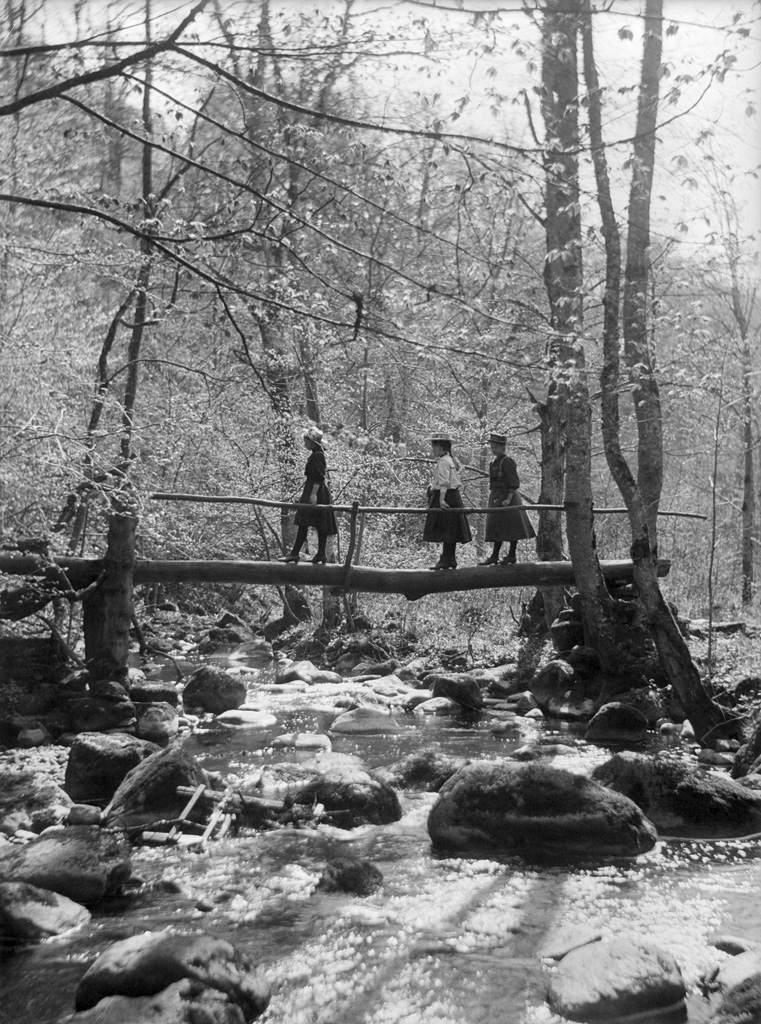 Young girls on a footbridge (log bridge) over a stream, somewhere in Sweden. Location: Parish (socken): Unknown, Province (landskap): Unknown, Municipality (kommun): Unknown, County (län): Unknown Format: Glass plate negative Persistent URL: Read more about the photo database (in english)